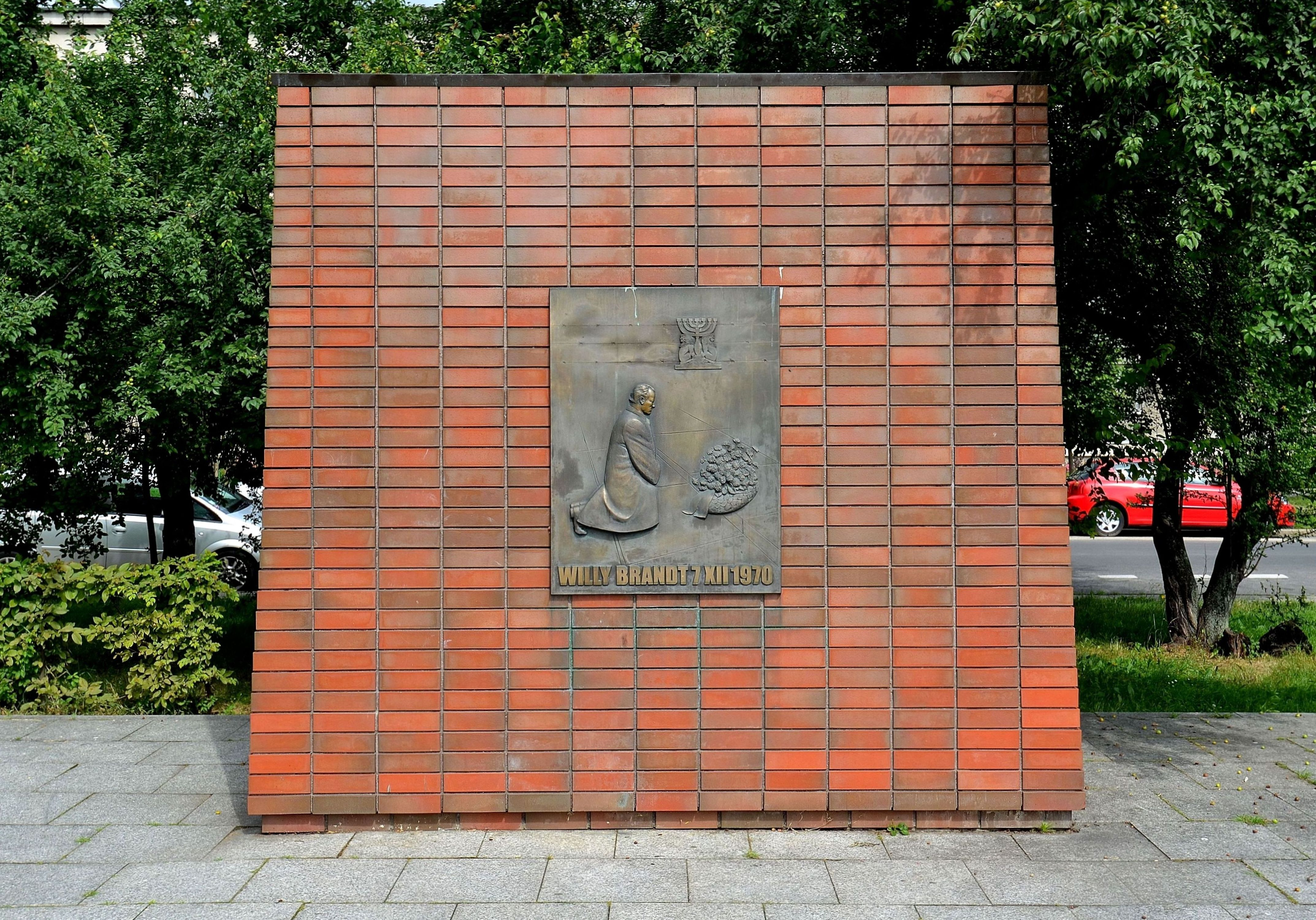 Monument to Willy Brandt in Warsaw